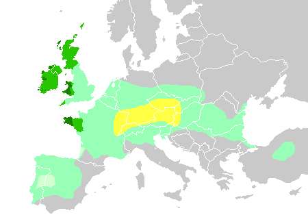 Celts in Europe, revised the borders of former Serbia-Montenegro union